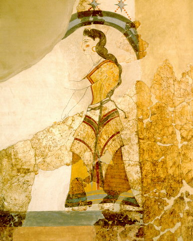 Fresco of a lady with papyri from the bronze age excavation of the minoan town Akrotiri on the greek island of Santorini.